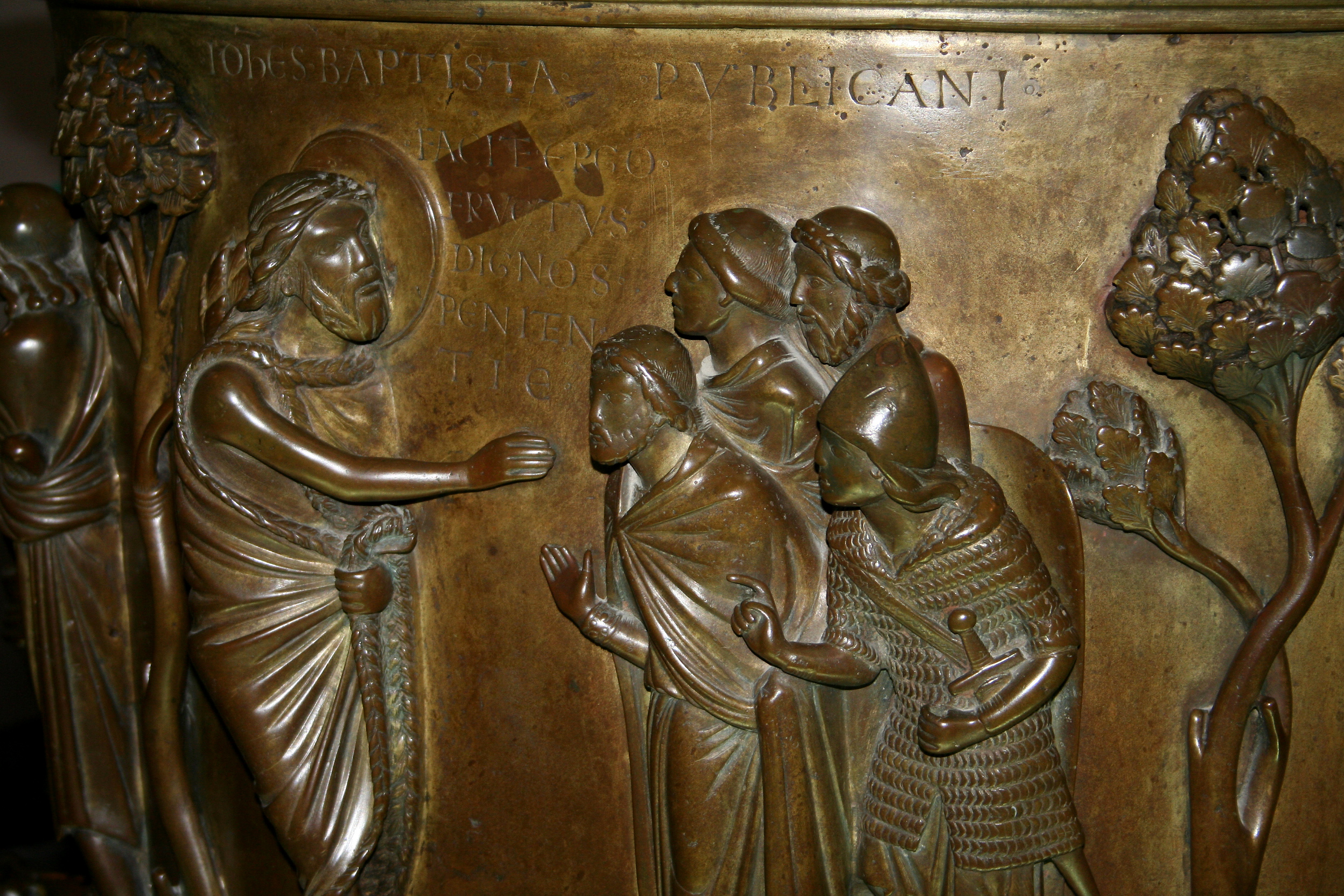 Liège (Belgium), Saint Bartholomew's Church - Baptismal font of Renier de Huy (begin of the XIIth century). - The call of John the Baptist to repent.